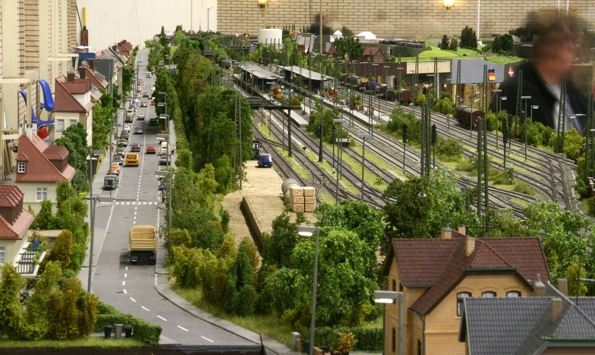 Model railway after German prototype. FREMO-gathering in Zuidbroek, NL. 2010